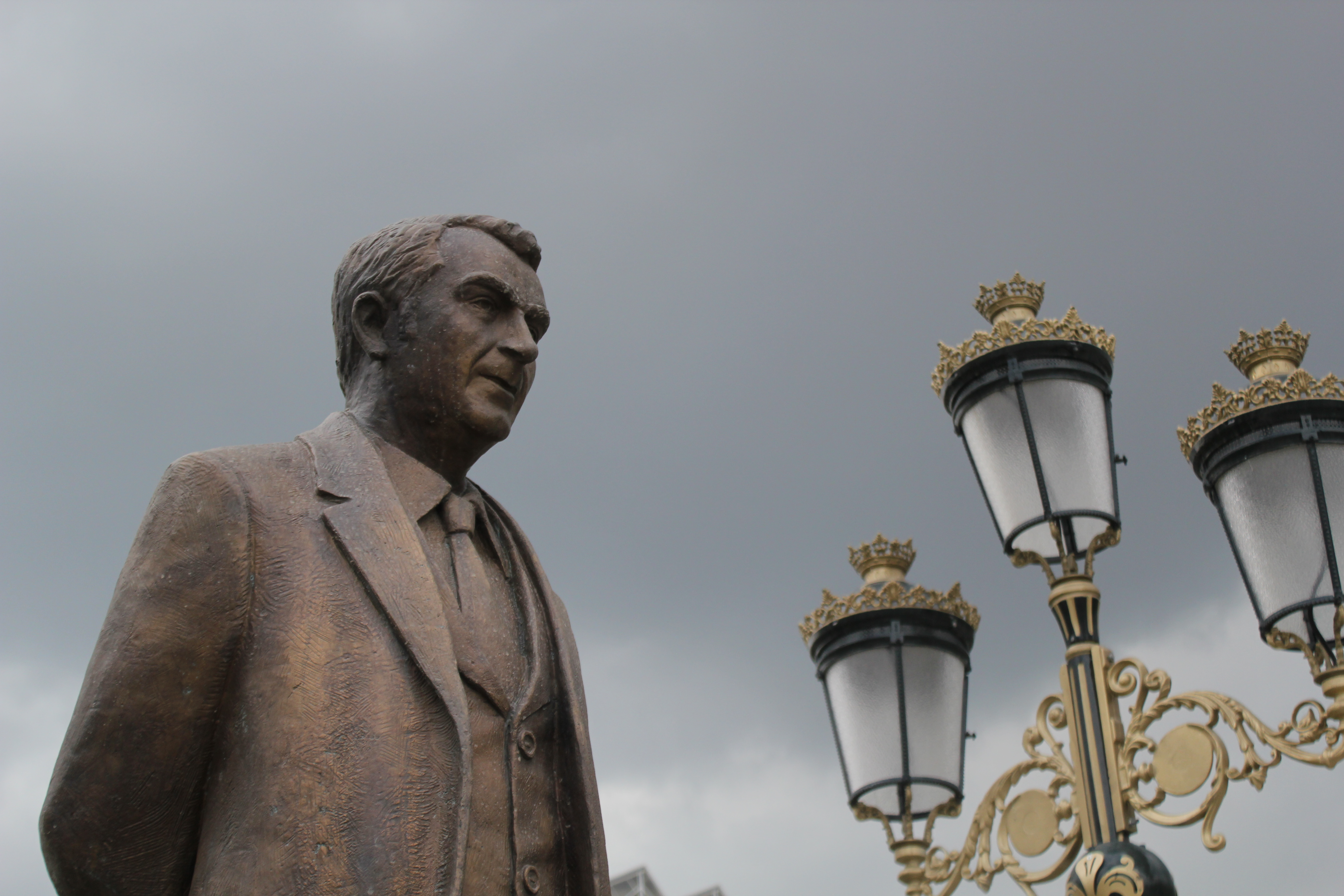 Statue of the Macedonian poet Aco Sopov (1923-1982) on the Bridge of poetry in Skopje (2013)